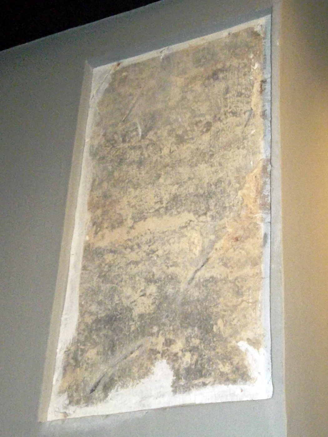 Peter I's Winter House. Color scheme of the facade of The Small Chambers. 1716